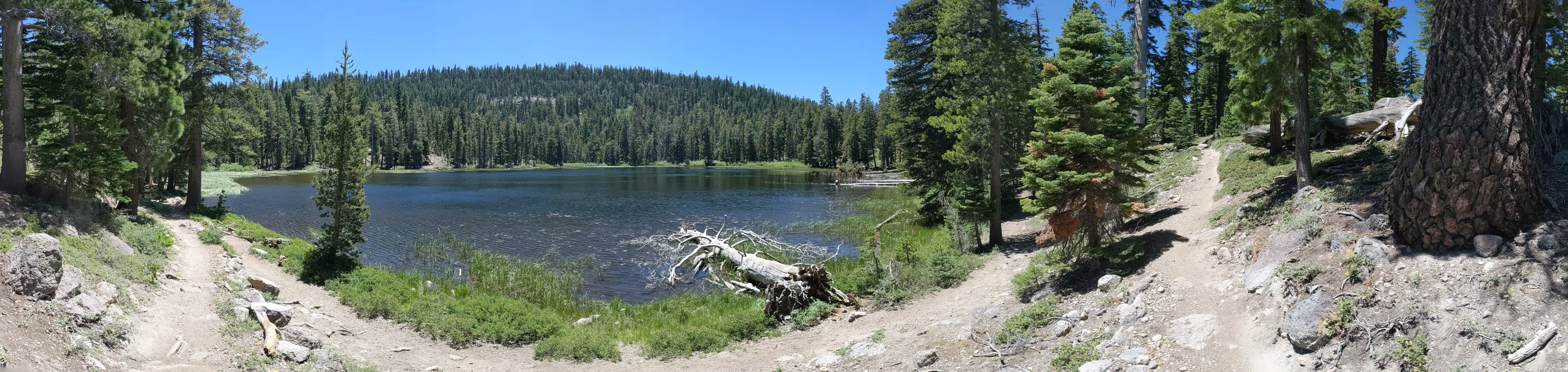 Panoramic view of Watson Lake from the Tahoe Rim Trail. To the right, the trail goes up over the ridge where it crosses the headwaters meadow of Watson Creek. To the left, it crosses the outflow channel of the lake which is a tributary to Watson Creek, and continues south toward Lake Tahoe.